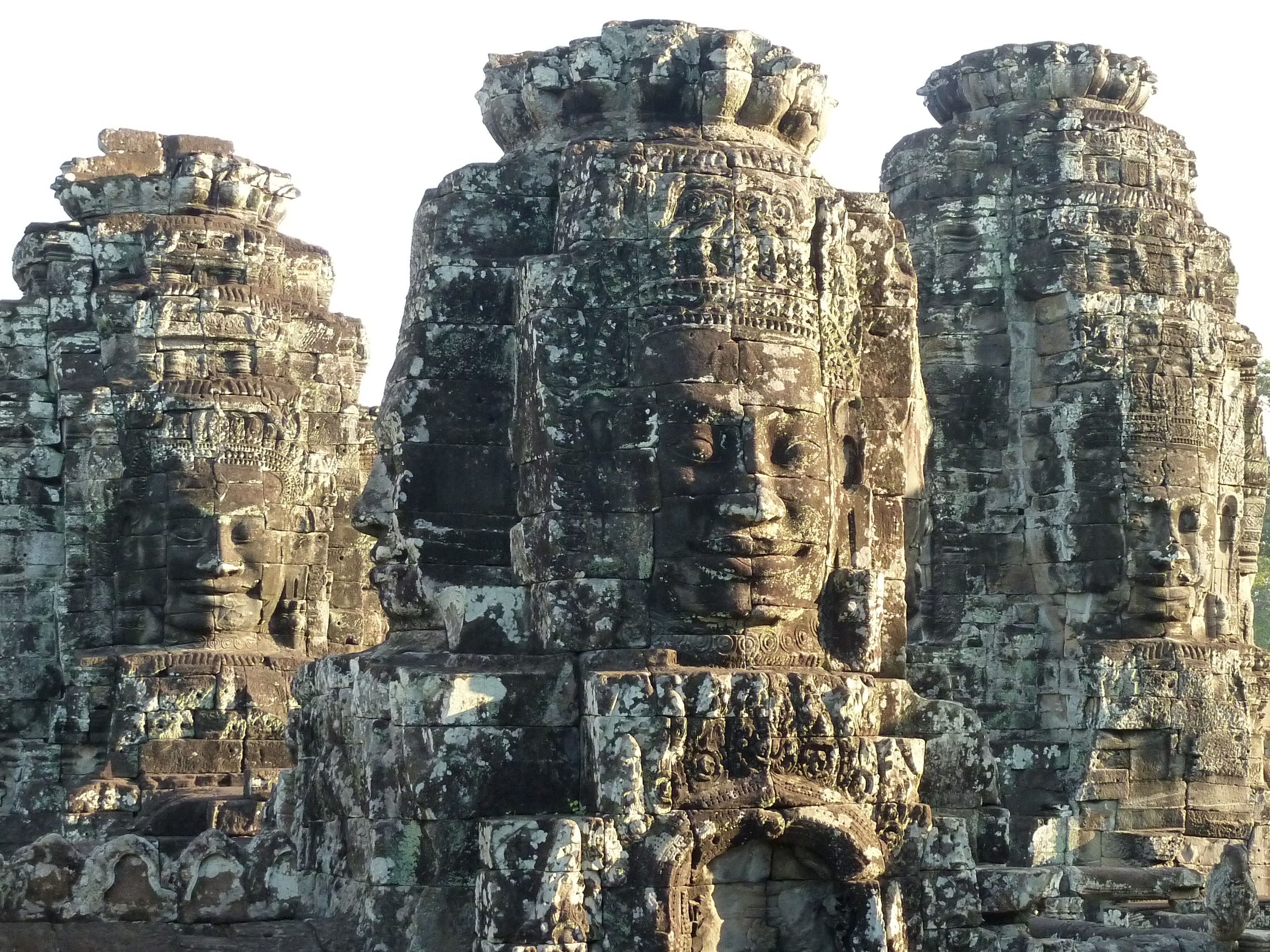 011 Tower Faces at Bayon Photograph from the Bayon Temple at Angkor in Cambodia taken by Anandajoti.